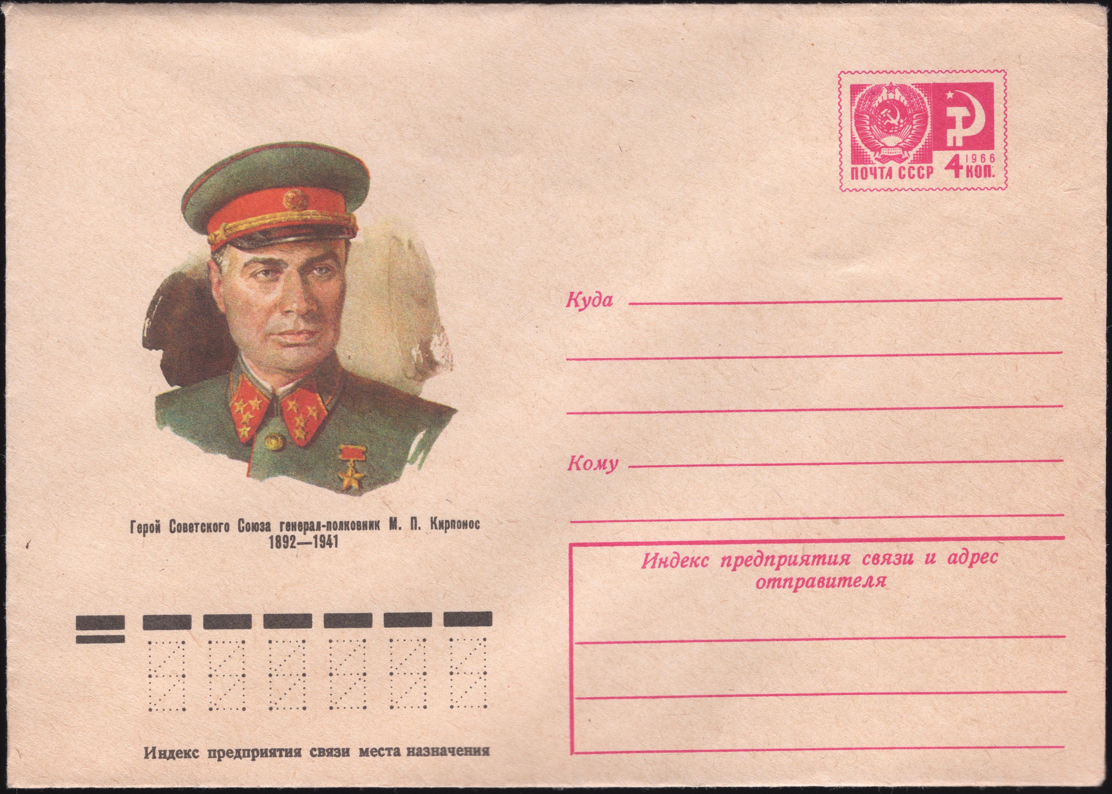 Hero of the Soviet Union colonel general Mikhail Kirponos. 1892-1941. Series: Heroes of the Soviet Union. Artist Peter Bendel.